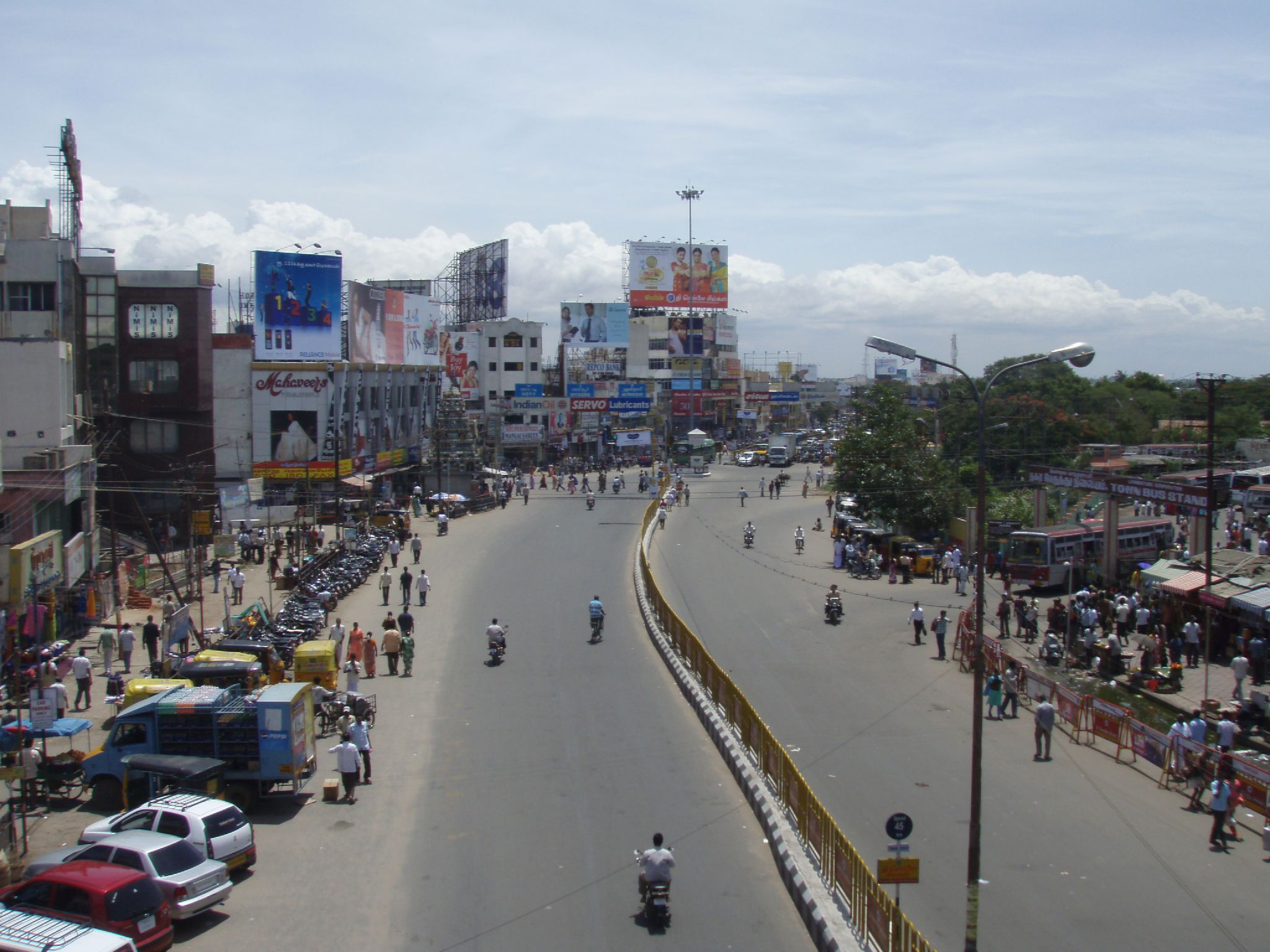 View of Dr. Nanjappa Road in Coimbatore, Tamil Nadu. Photo has been taken from the over bridge in front of Gandhipuram Town Bus Stand.